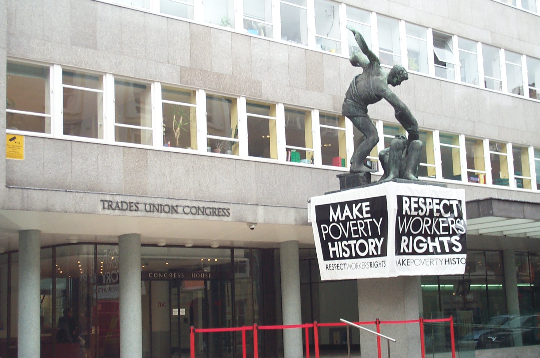 Make Poverty History banner in front of the Trades Union Congress, 2005-07. Copyright © Kaihsu Tai